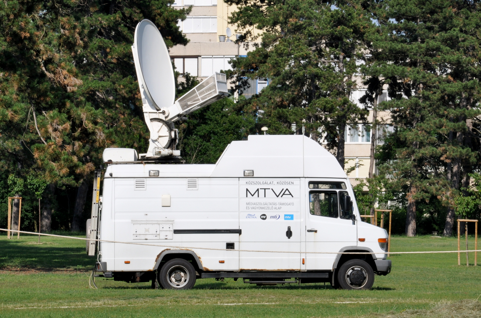 satellite truck of Hungarian public televison Magyar Televízió, Gödöllő